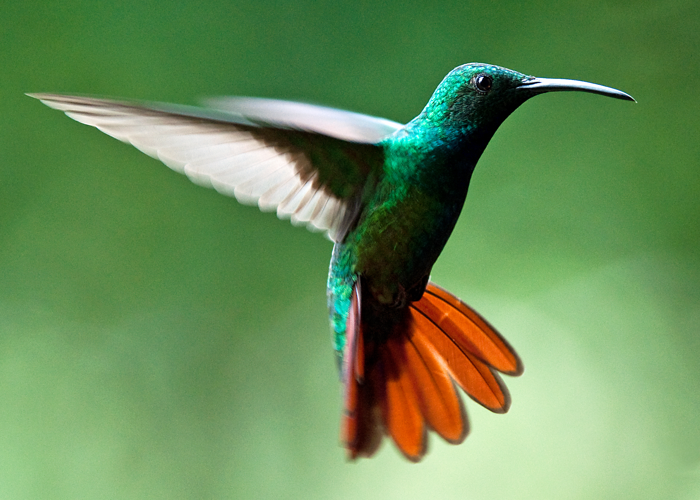 Anthracothorax prevostii Male Rancho Naturalista, Costa Rica 12.24.11